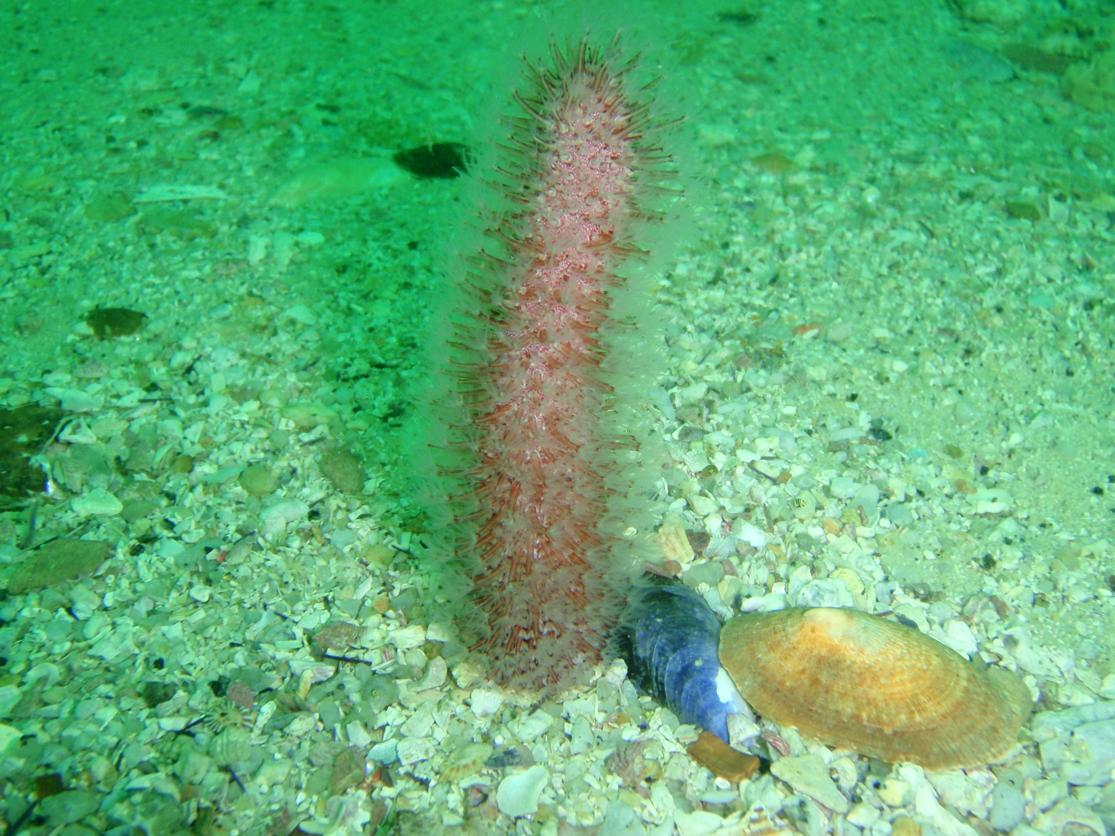 Actinoptilum molle at Windmill Beach